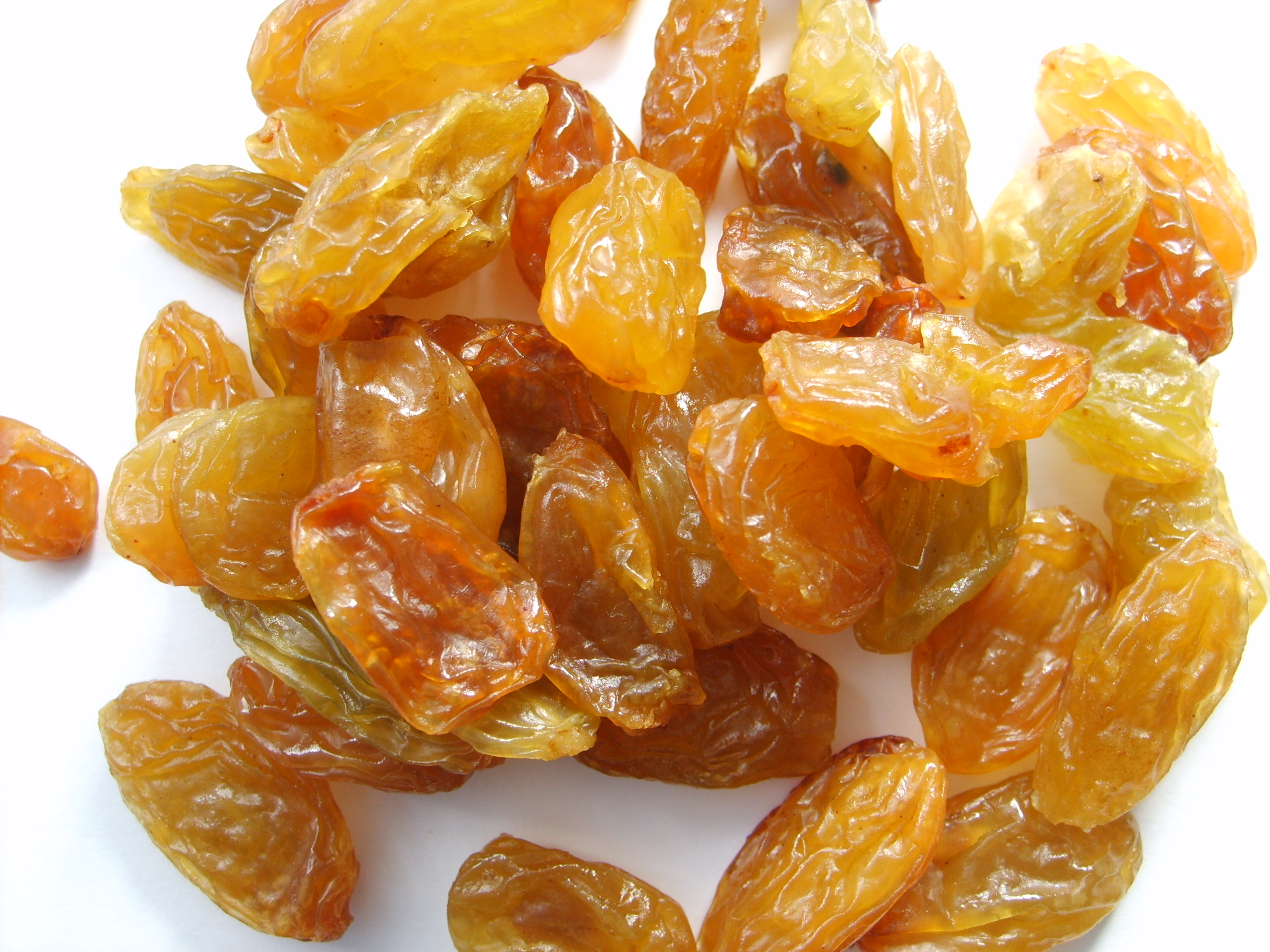 Raisins.